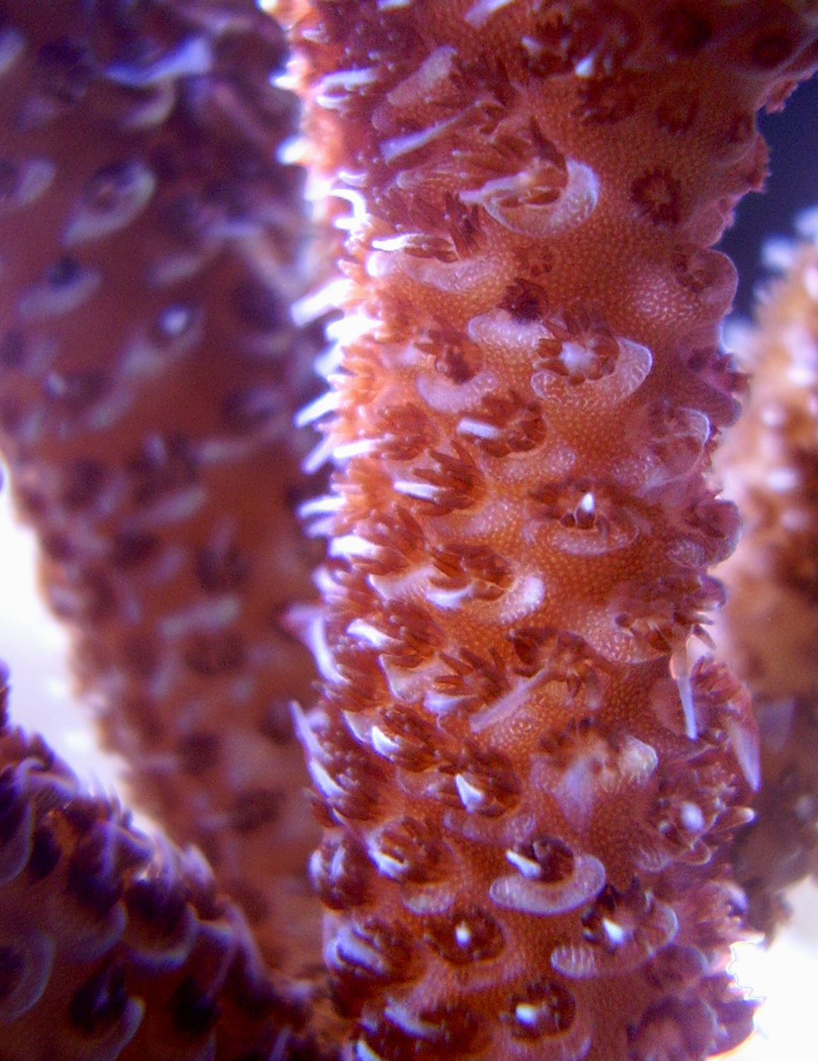 Close-up of Acropora stalk